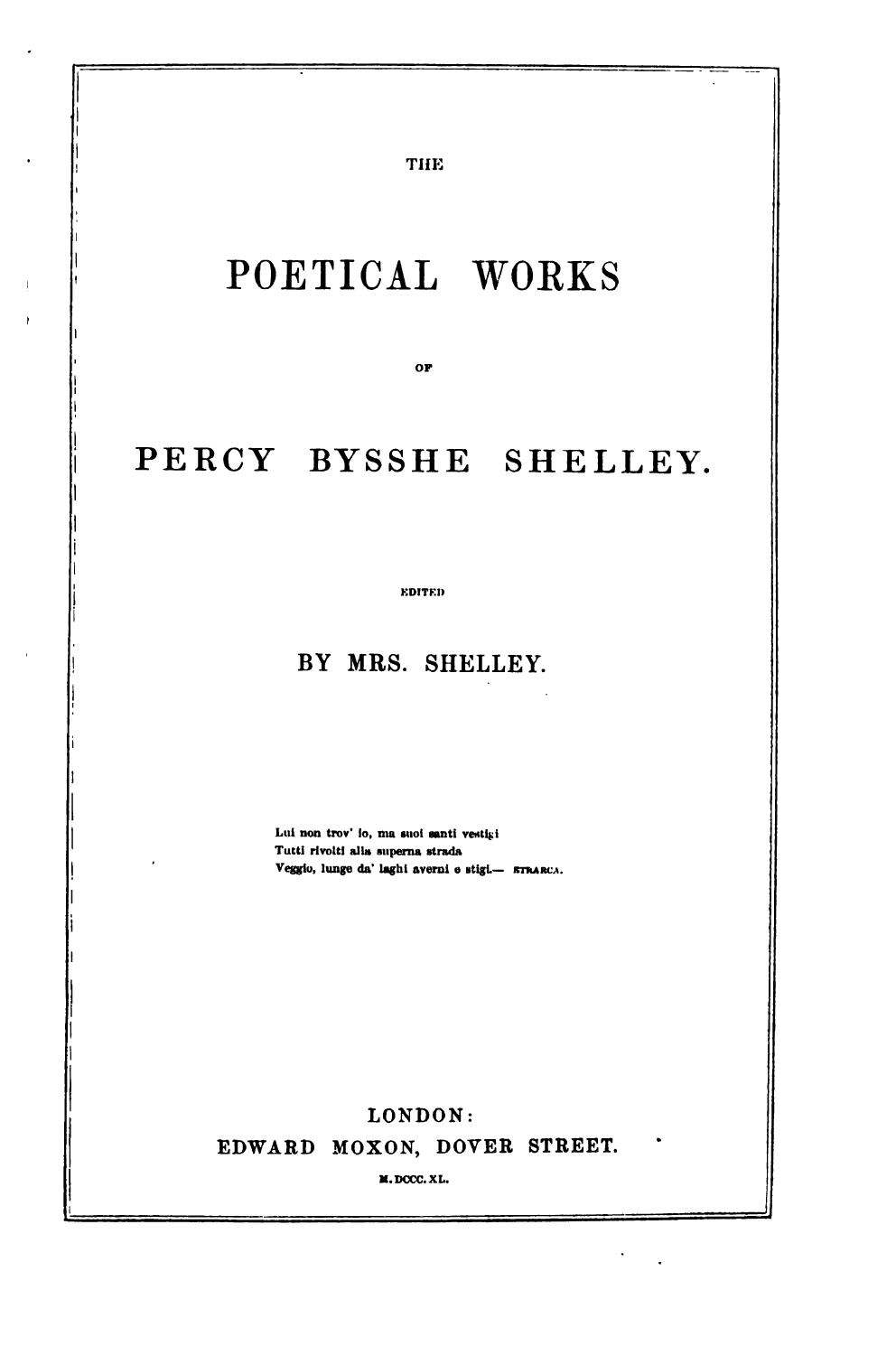 Title page from The Poetical Works of Percy Bysshe Shelley (1840)